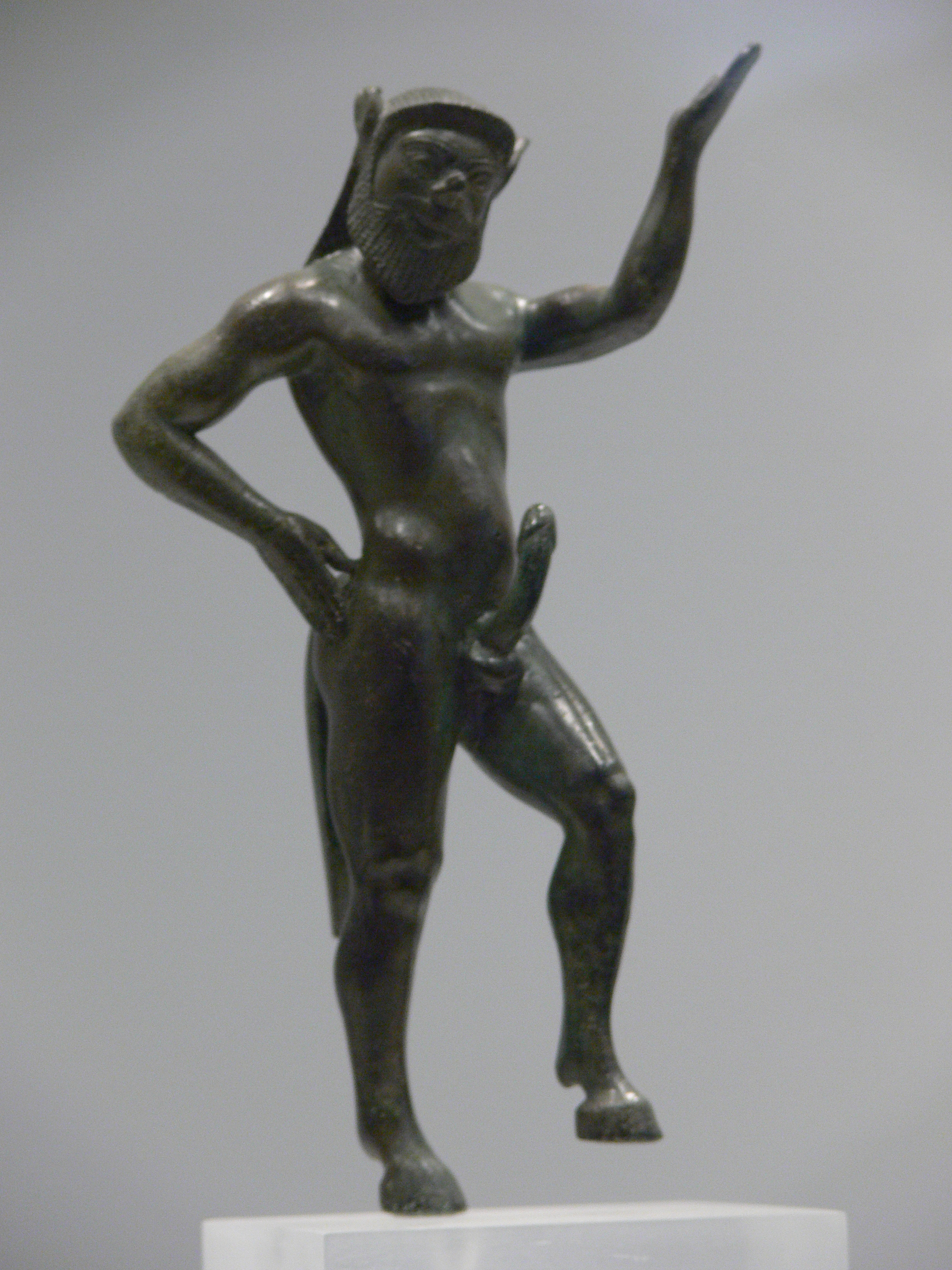 Statue of an ithyphallic Satyr, Silenus, at Athens Archaeological Museum. From the sanctuary of Zeus Dodona. Second half of the 6th century B.C. Corinthian workshop